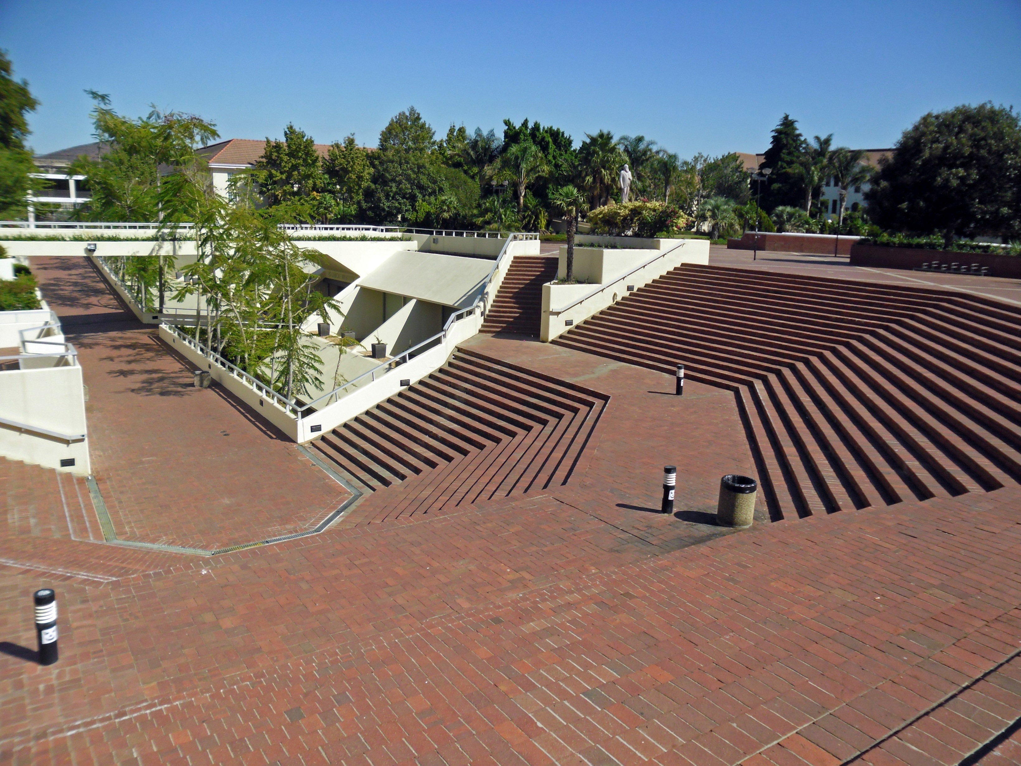 The Stellenbosch university library viewed from the Rooiplein.